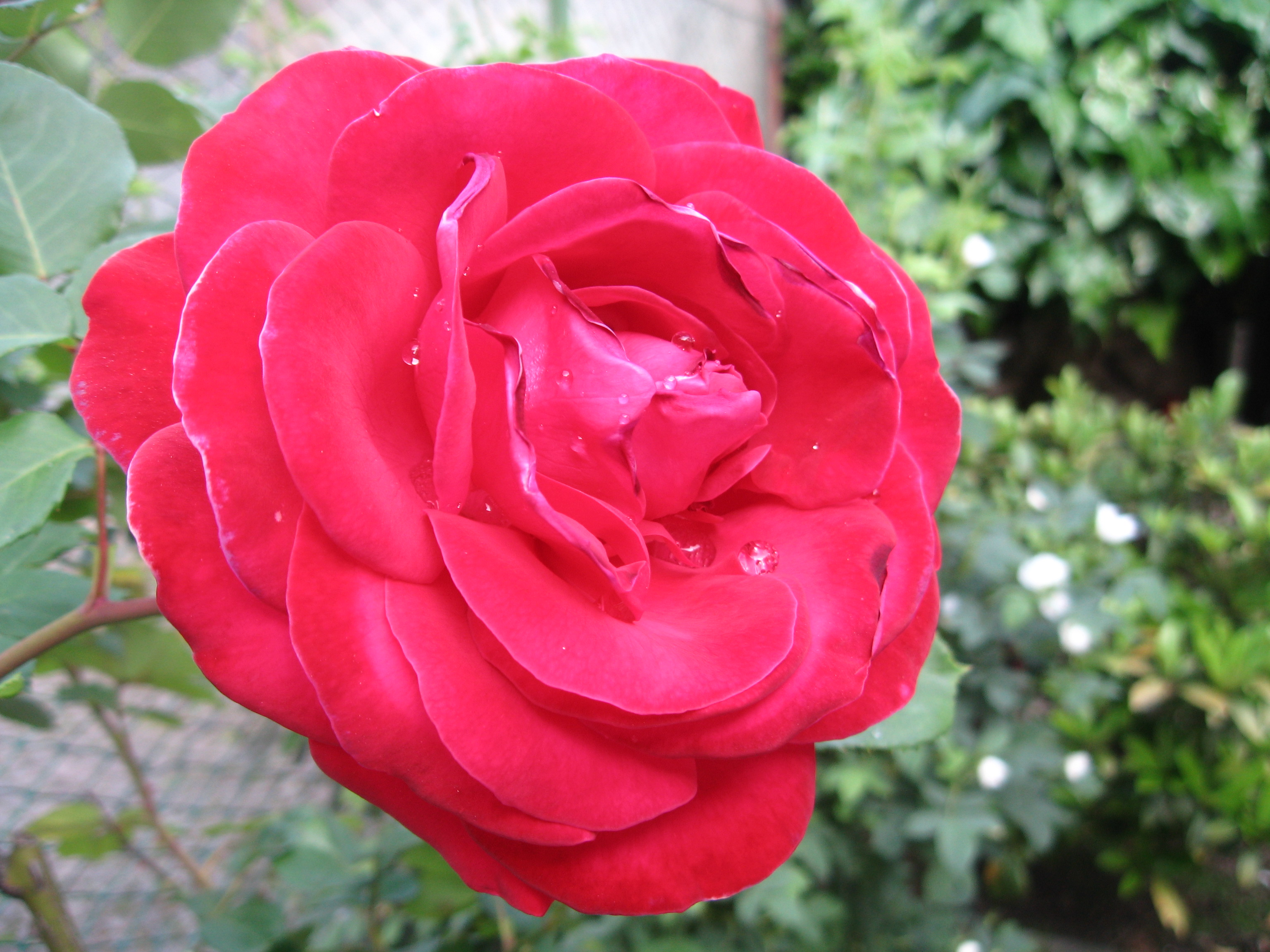 A red red rose with dewdrops on it.